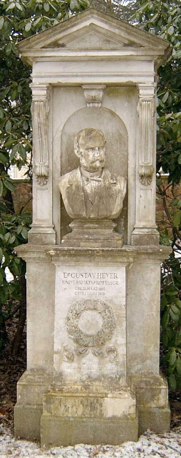 Gravestone of Gustav Heyer on the Alter Friedhof (old cemetery) in Gießen.